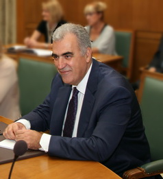 Dimitris Reppas, Minister for Infrastructure, Transport and Networks Cropped from a picture originally posted to Flickr as Πρώτη συνεδρίαση Υπουργικού Συμβουλίου